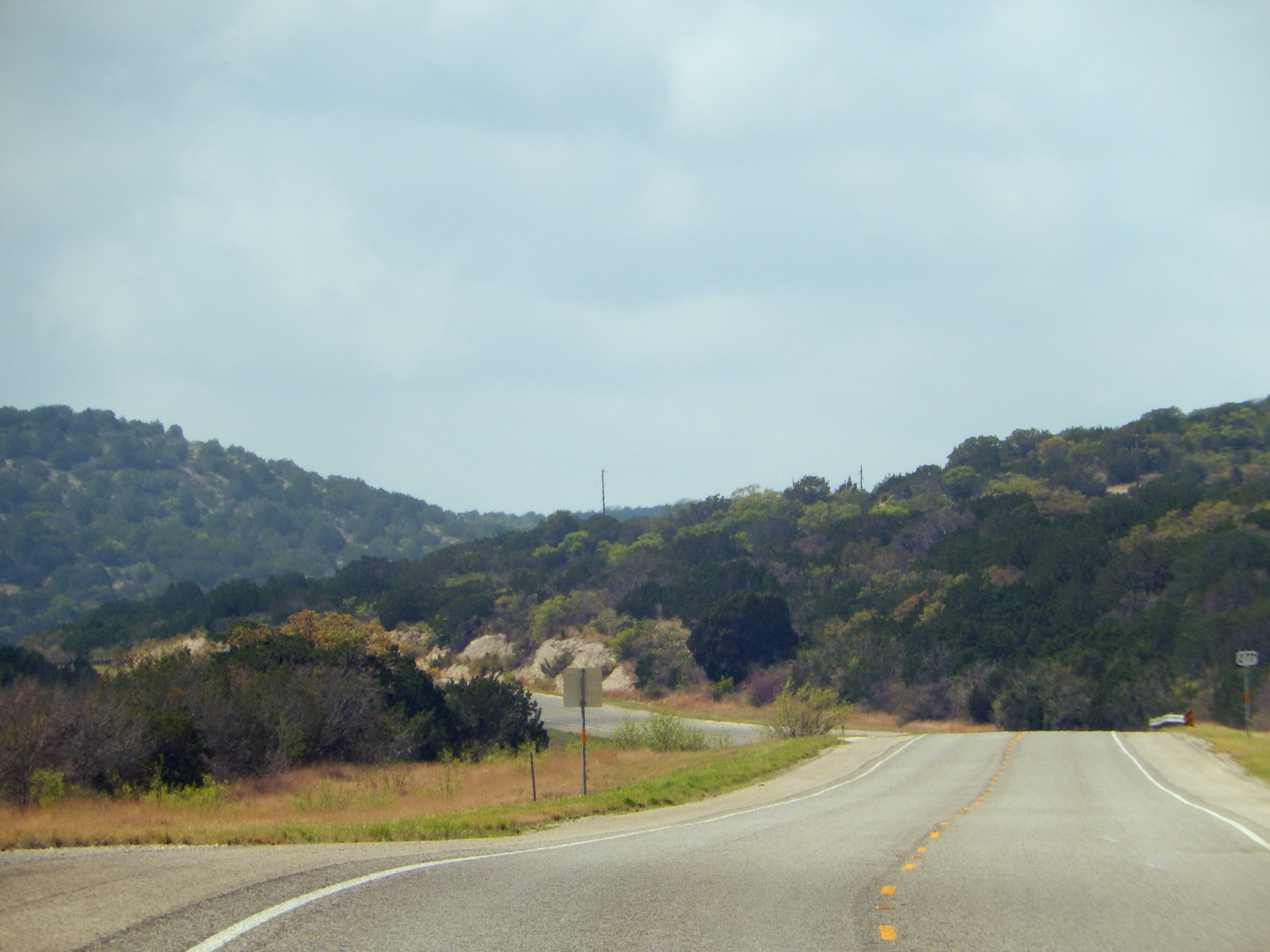 I took photo of Edwards Plateau terrain off U.S. Route 277 north of Del Rio, TX, with Nikon camera.